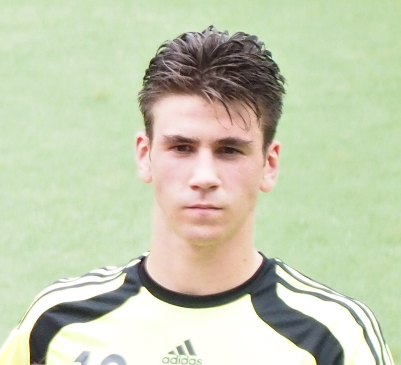 Spain U18 at the 2015 SBS Cup. Top row: 4- JAVIER JIMENEZ GARCIA, 5- XIKER OZERINJAUREGI MENDIKOETXEA, 16- CRISTIAN RIVERA HERNÁNDEZ, 8- MIKEL OYARZABAL UGARTE, 17- ANTONIO MARTINEZ LOPEZ, 13- UNAI SIMON MENDIBIL. Bottom: 11- JAVIER ONTIVEROS PARRA, 2- DAVID CARMONA SIERRA, 3- SERGIO AKIEME RODRIGUEZ, 7- DIEGO ALTAMIRANO CARBONELL, 10- ALEIX GARCÍA SERRANO